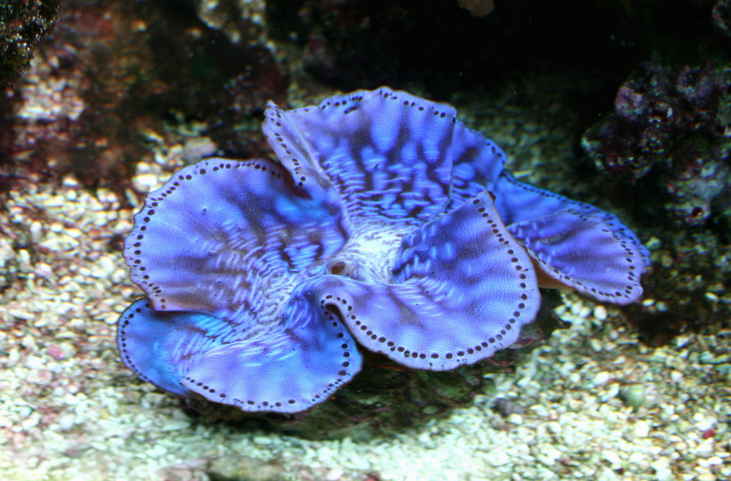 Sea molusk Maxima clam Tridacna maxima in Prague sea aquarium, Czech Republic